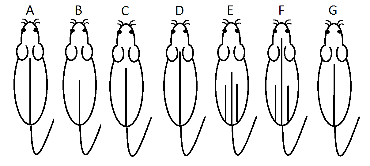 Form of dorsal stripes in genus Hybomys. In some species the stripes can be broken or vague. A – Hybomys badius (syn. Hybomys eisentrauti) B – Hybomys basilii C – Hybomys lunaris D – Hybomys planifrons E – Hybomys trivirgatus (in Sierra Leone) F – Hybomys trivirgatus (in Nigeria) G – Hybomys univittatus